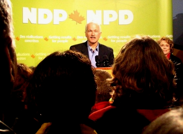 Jack Layton speaks at an NDP Rally in Courtenay, British Columbia the night of January 12th 2005